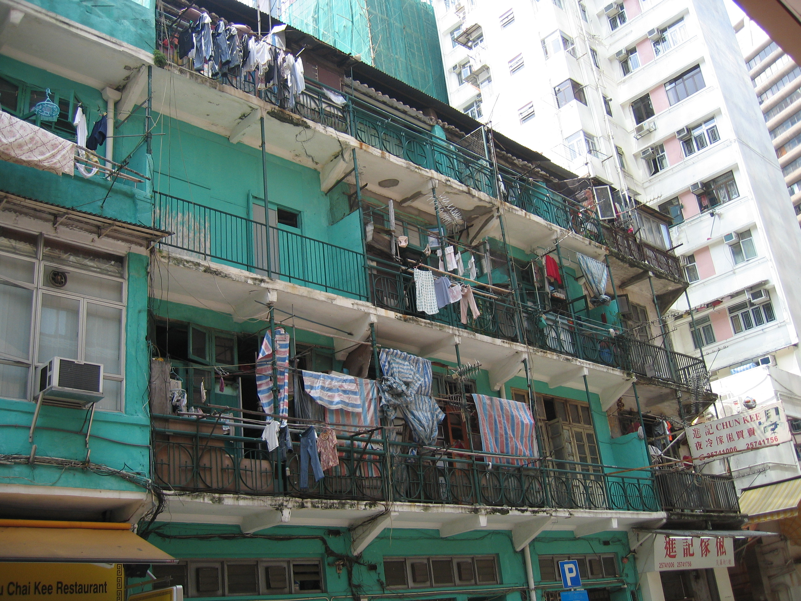 Self-taken photo of Tong Houses in Mallory Street in Hongkong.